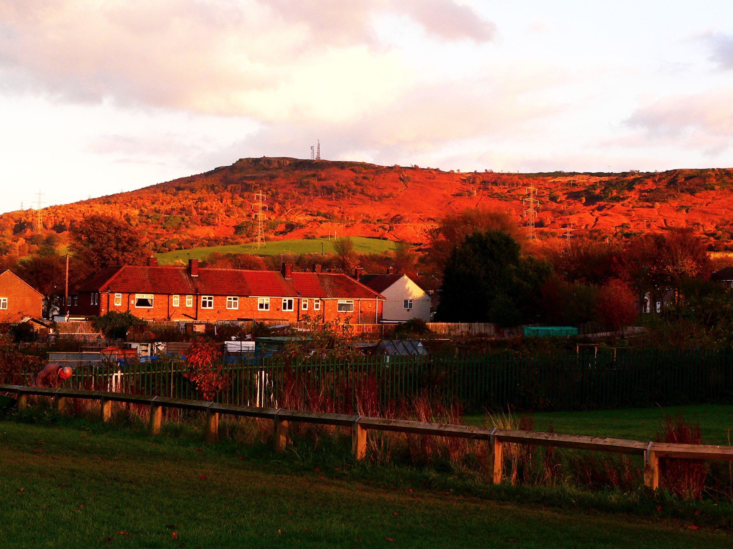 Eston Nab from Flatts Lane, Normanby, Redcar and Cleveland, England.